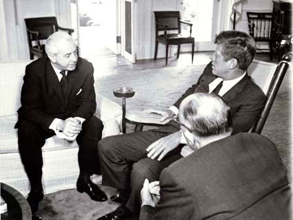 Harold Holt and U.S President John F. Kennedy meeting in the Oval office in 1963.